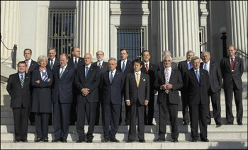 Secretary Henry M. Paulson, Jr. hosted a meeting of the G7 Friday at the Treasury Department. The Group of Seven Finance Ministers and Central Bank Governors includes Canada, France, Germany, Italy, Japan, the United Kingdom and the United States. The meeting precedes the fall gatherings of the IMF and World Bank in Washington. (Source's own description)